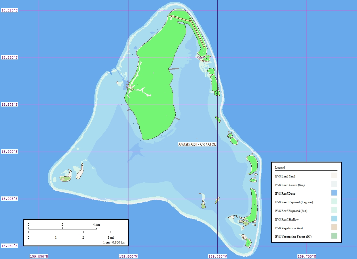 Map of Aitutaki Atoll, Cook Islands